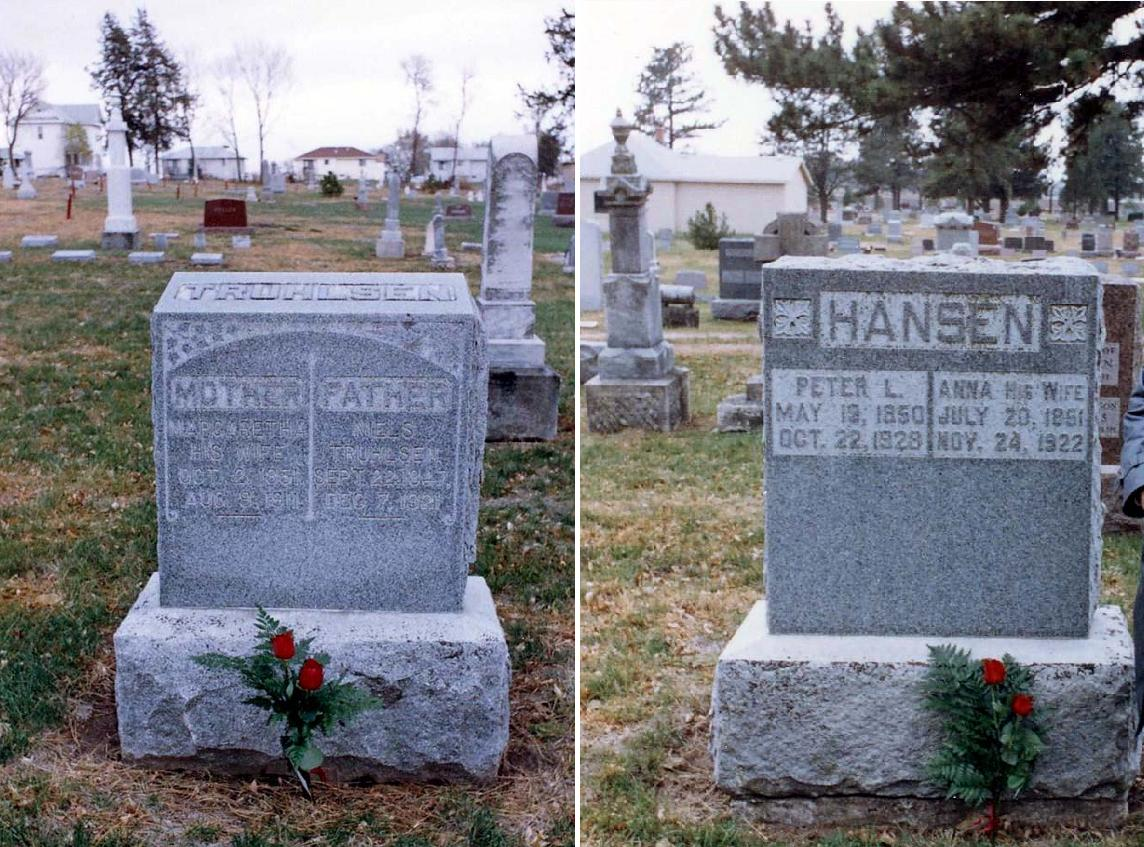 Graves of family founders Niels Truhlsen (né Nils Truedsson) and his sister Anna Hansen (née Truedsdotter)Place: Blair Municipal Cemetery, Nebraska